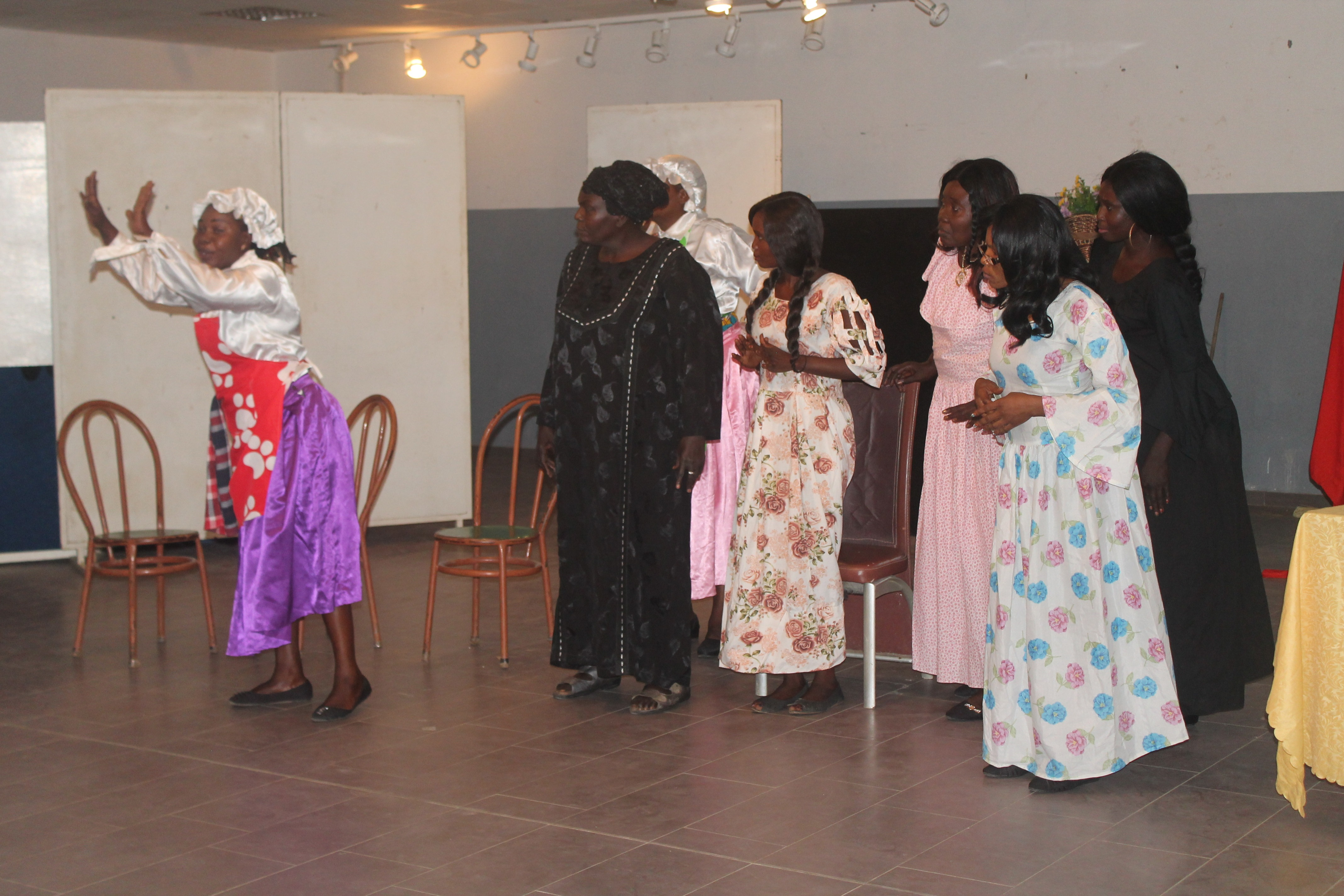 This is an image with the theme "Play" from: Chad